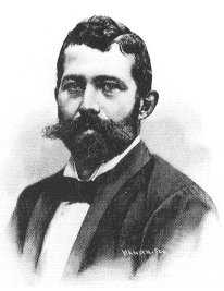 Photography of Gunnar Berg, painter (Norway 1863-1893)